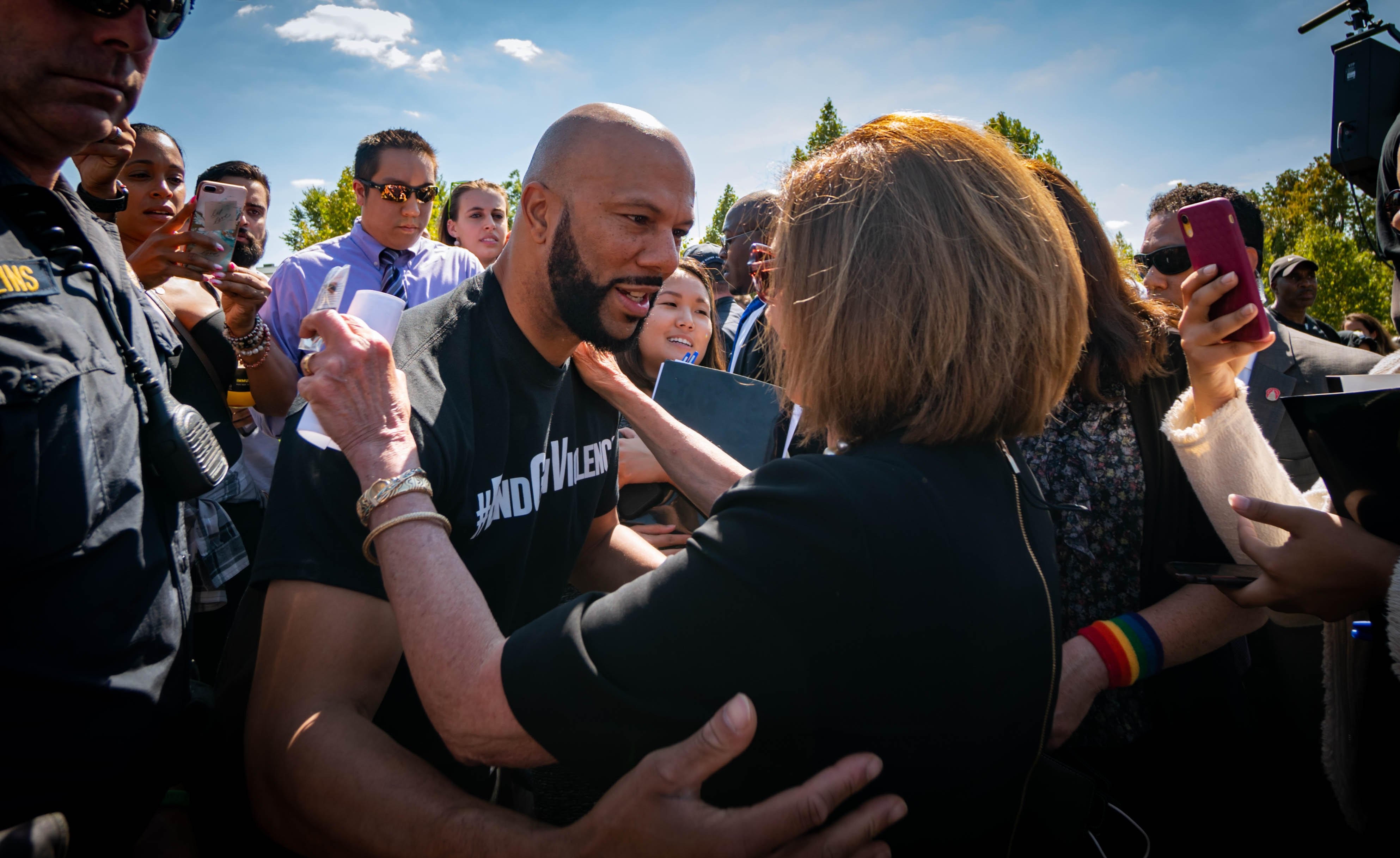 Thank you to all who came out today to fight to End Gun Violence across America. No family should have to bear the pain of losing a loved one.